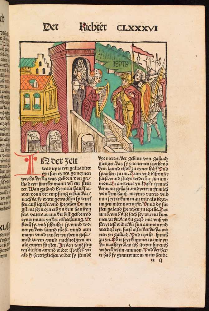 Page from the Book of Judges in a German Bible dating from 1485. Digitised by the Polonsky Foundation Digitization Project. Shelfmark: Bib. Germ. 1485 d.1. Folio CLXXXVI recto. More provenance information at